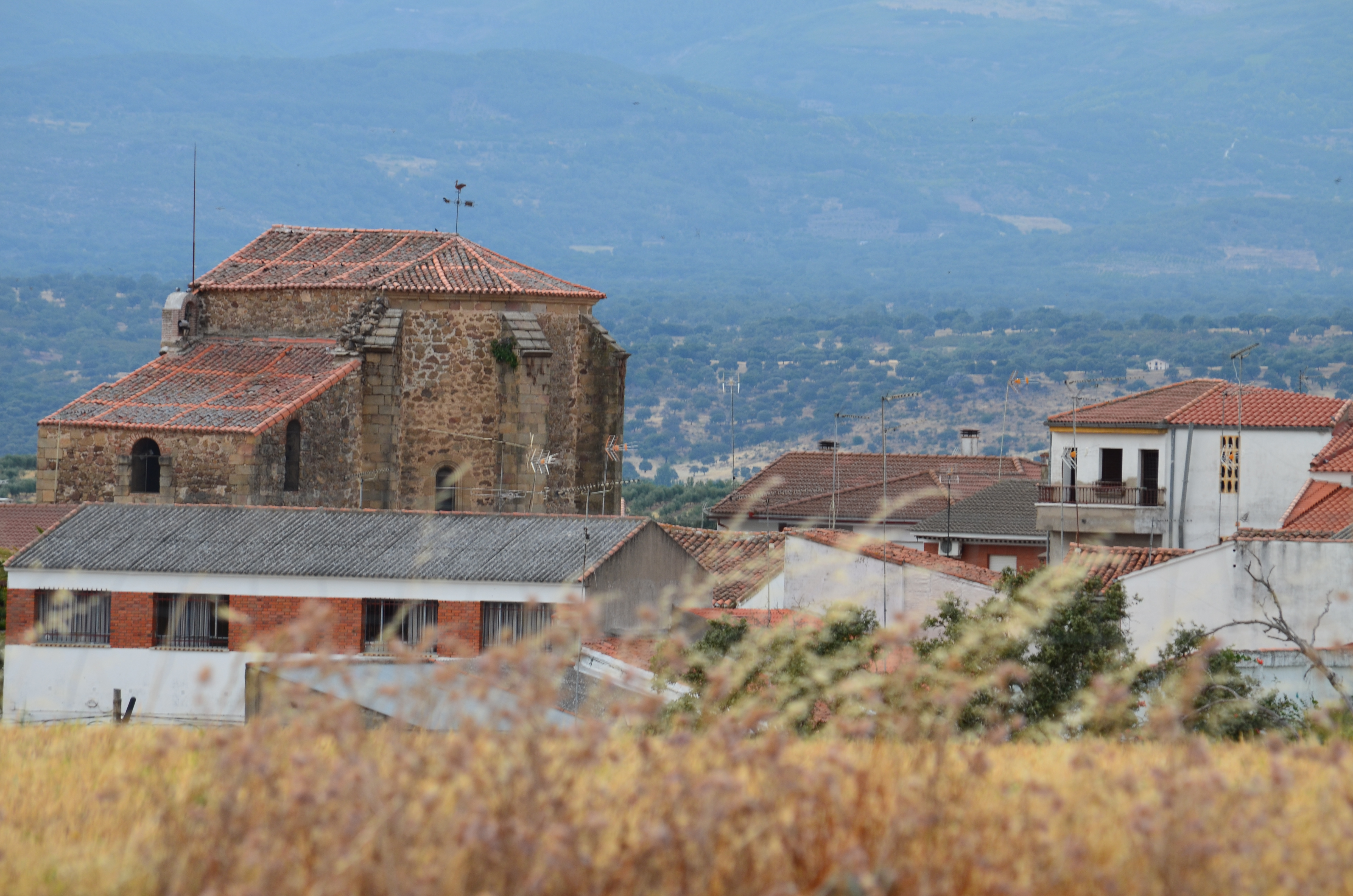 Church of San Salvador in Majadas de Tiétar (Cáceres), see it from the hill of the town.